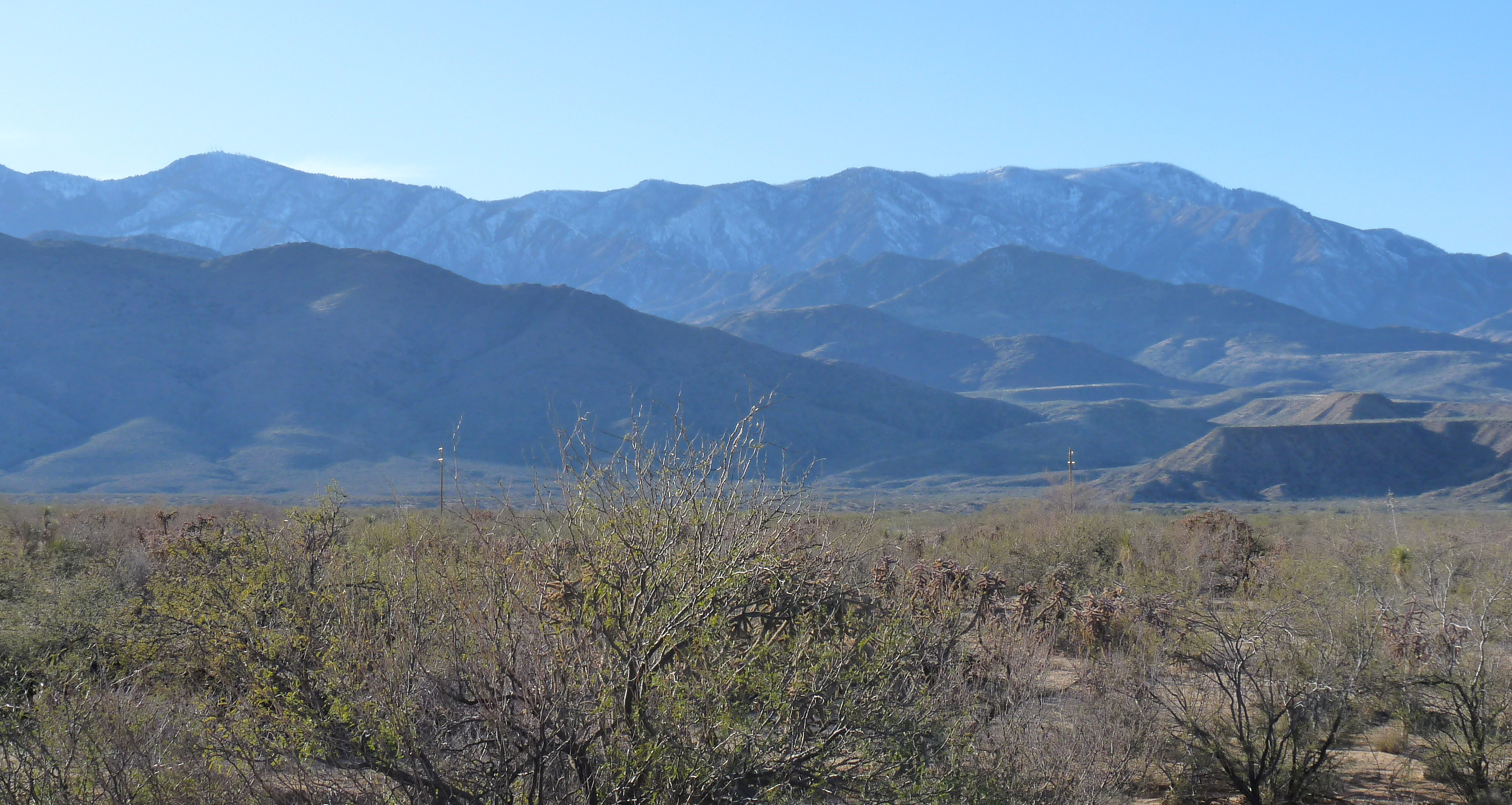 The image represents the Pinaleno Mountains range, part of the Madrean Sky Islands enclave mountains structure. It was photographed from the west of the mountains from a location south of Safford, Graham County, on the United States Route 191, between Safford and Willcox.